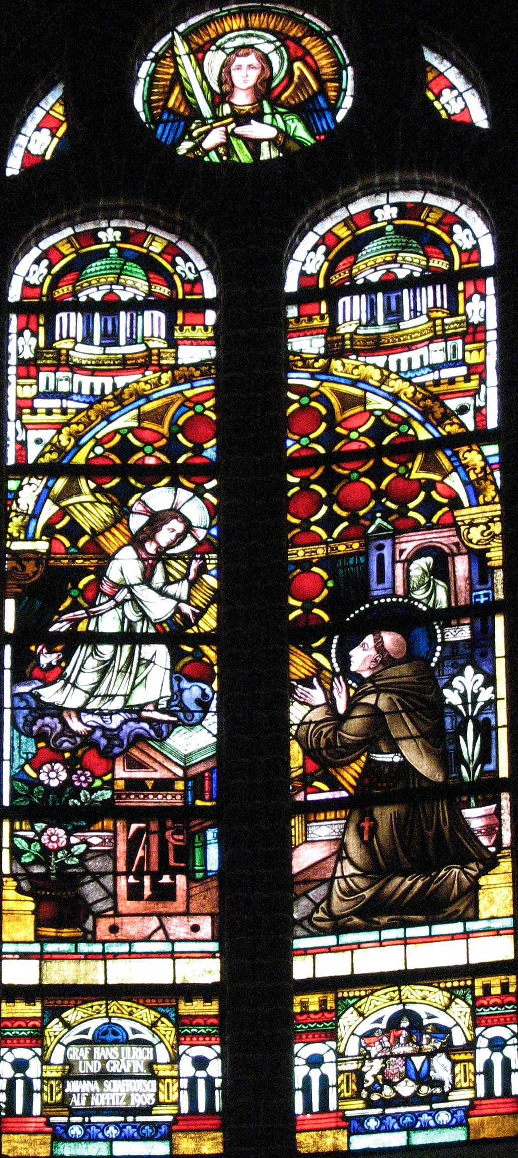 Stained glass window in the transept of the Basilica of St. Louis King in Katowice Poland, XX century - Saint Anthony of Padua